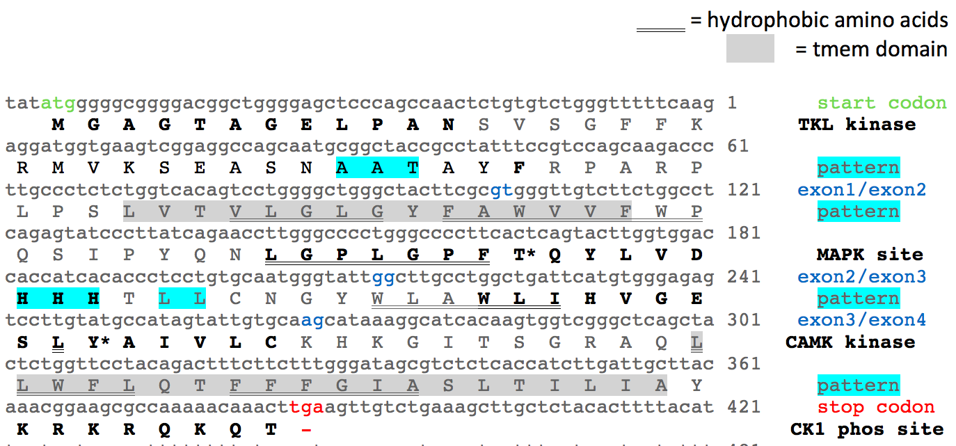 TMEM254 PTM MSA